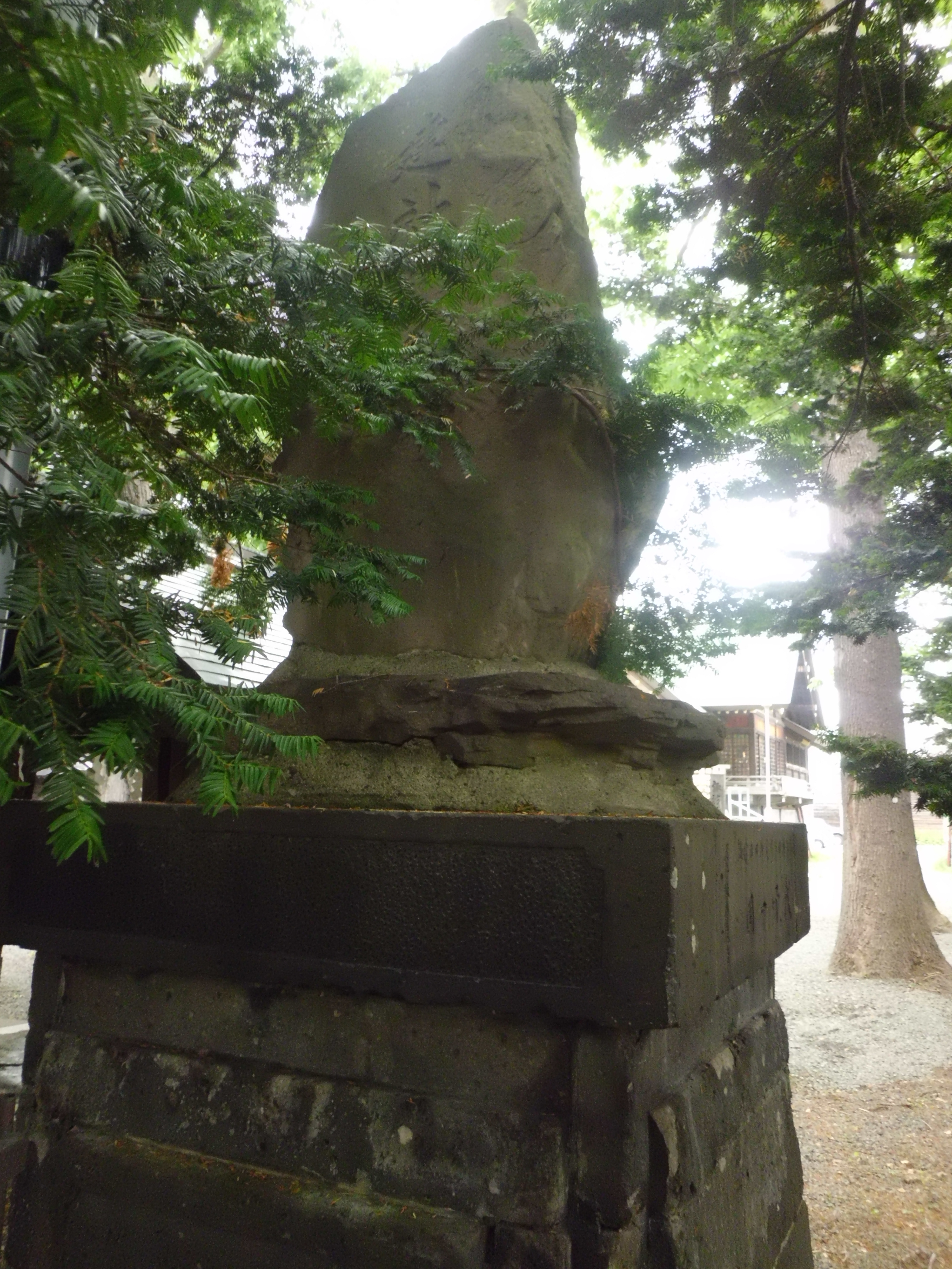 Monument of Sapporo Suwa Shrine